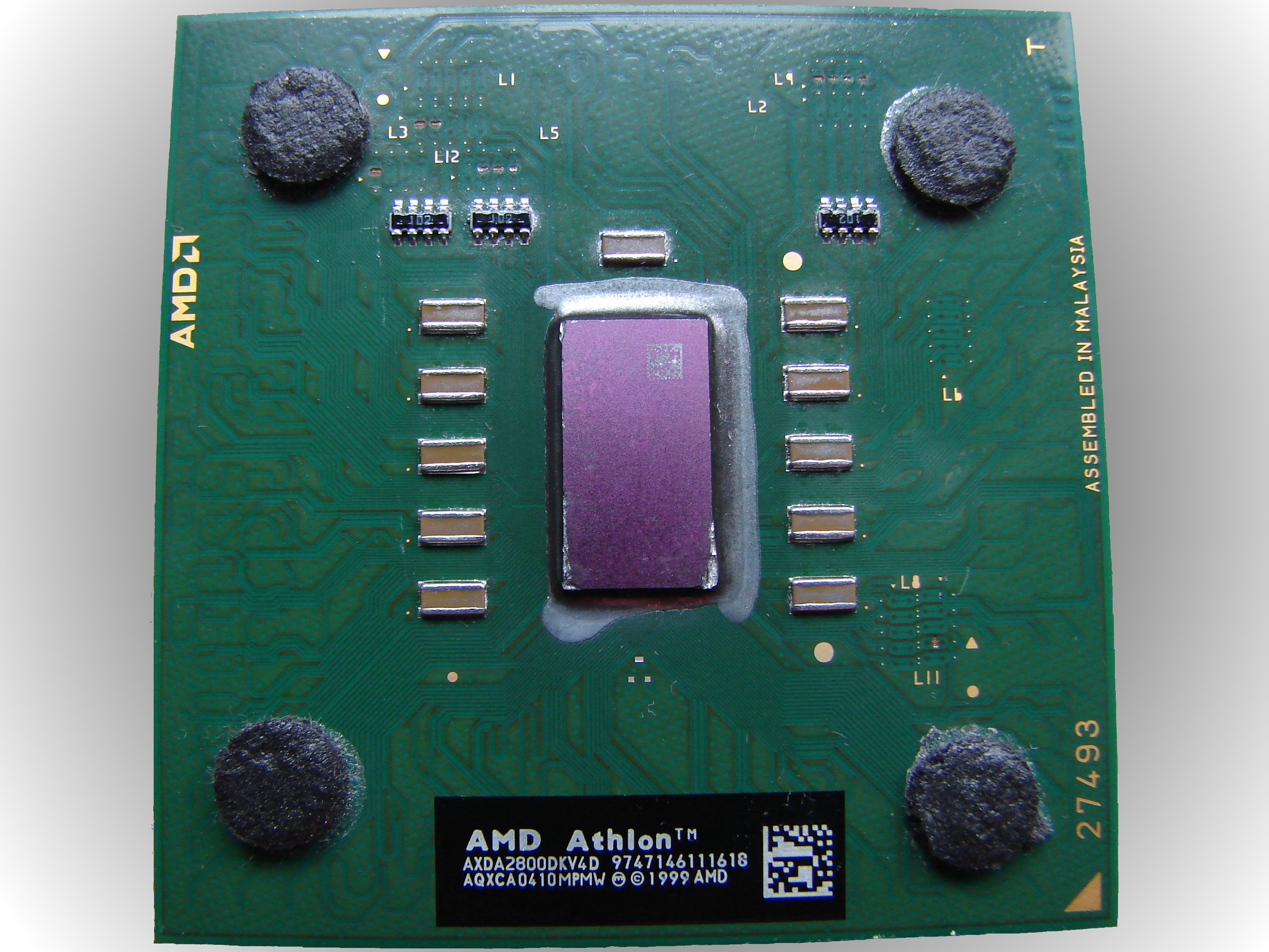 AMD Athlon XP 2800+ with Barton core